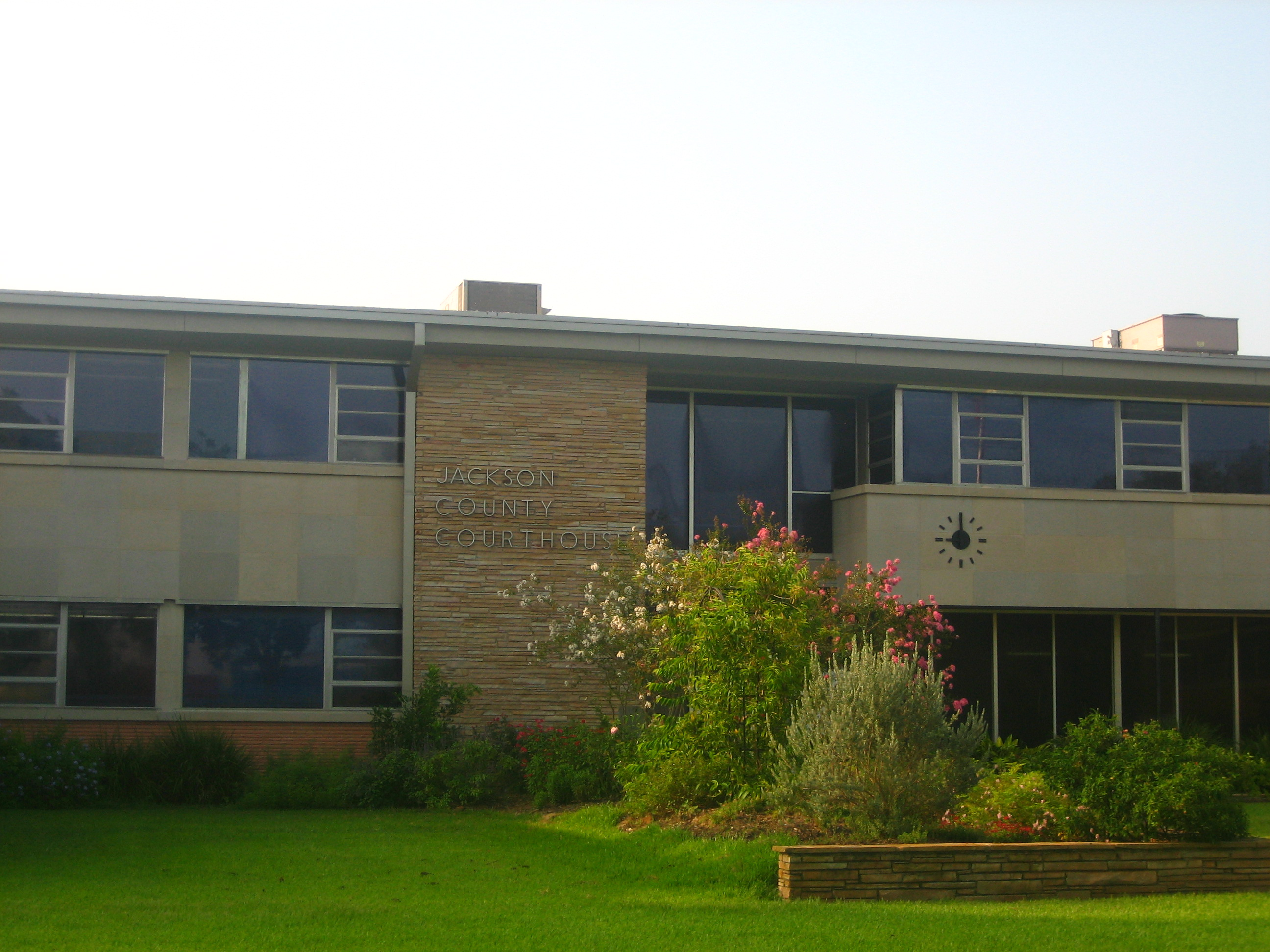 I took photo on July 31, 2008.Billy Hathorn (talk) 00:11, 18 August 2008 (UTC) in Edna, Texas